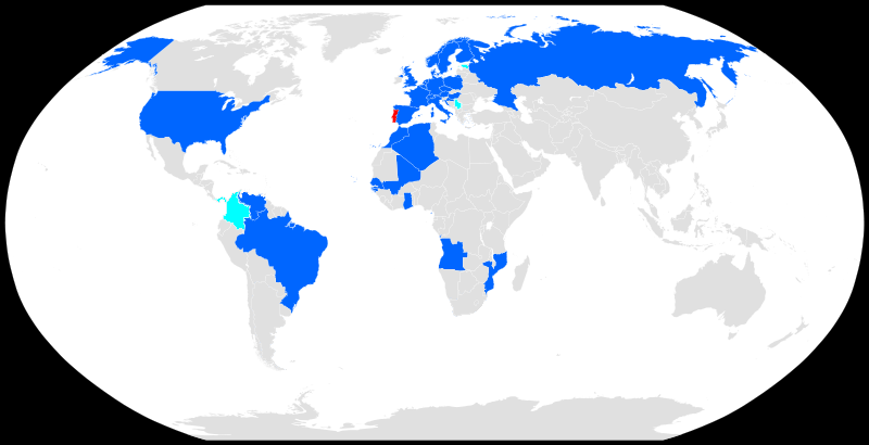 Map of TAP Portugal destinations in January 2014 (apart from Athens, which is suspended) and new scheduled destinations in 2014)